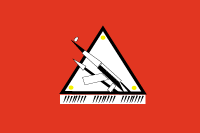 Flag for infobox, Similar usage with InfoboxHez.PNG